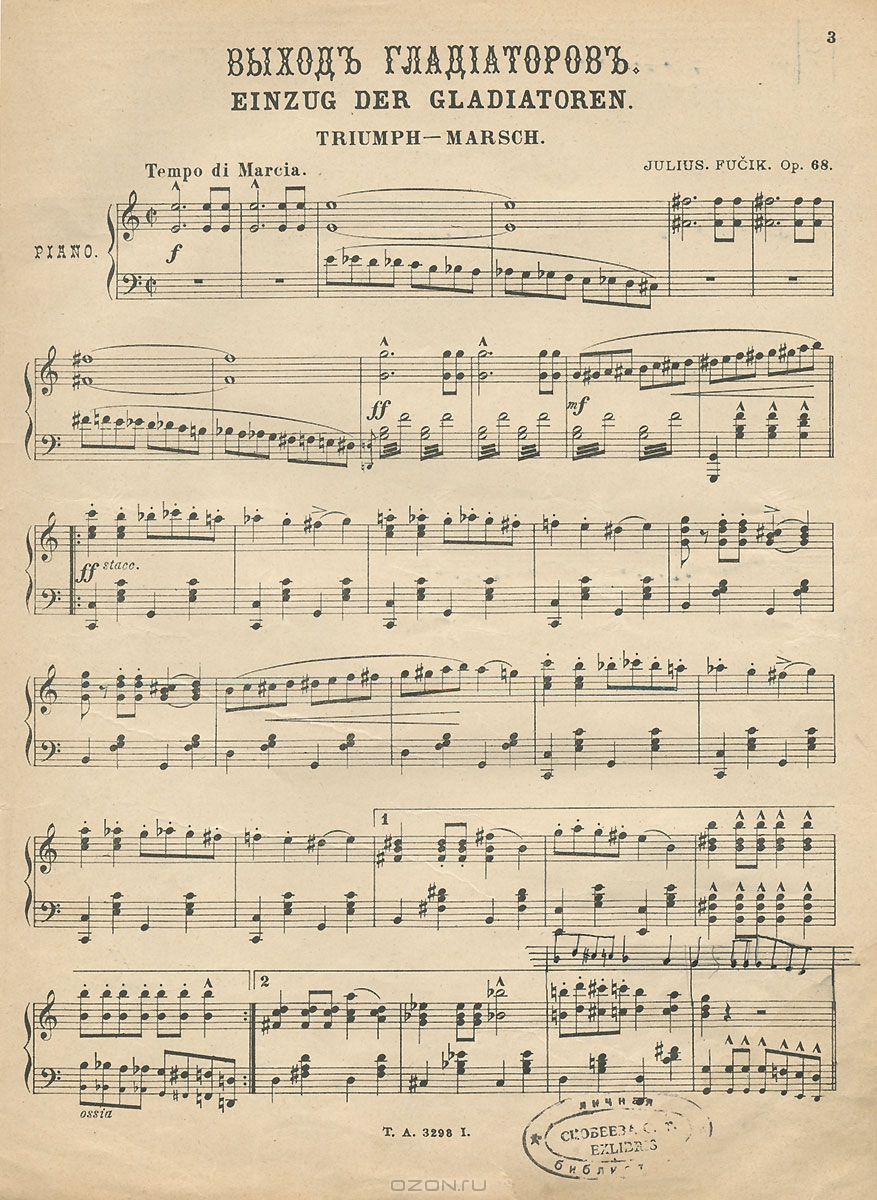 Score, Johanssen edition